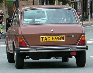 Austin Maxi 2 car, photographed in Ilkley 23 September 2007